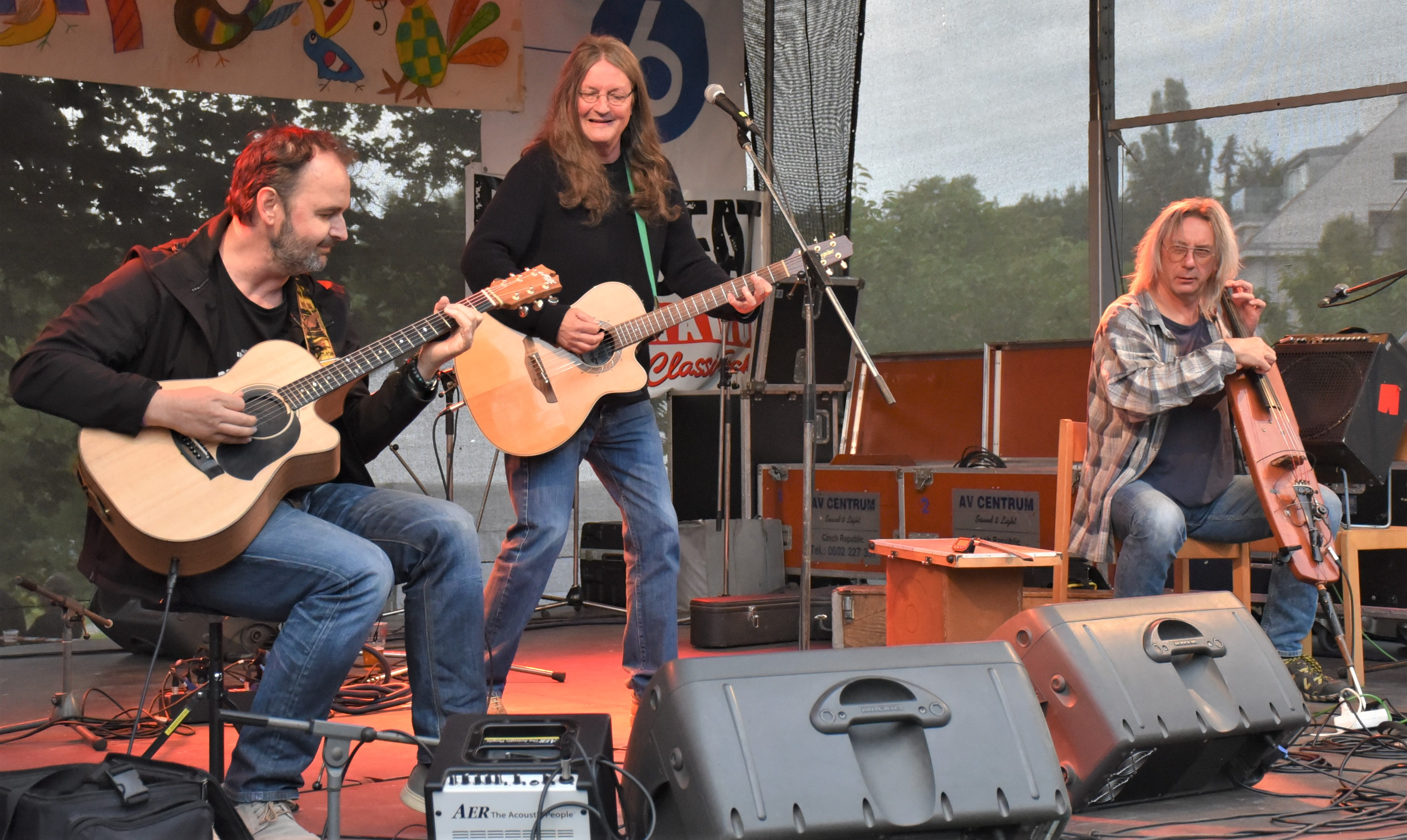 Ivan Hlas Trio (from left: Norbi Kovács, Ivan Hlas, Jaroslav Olin Nejezchleba)